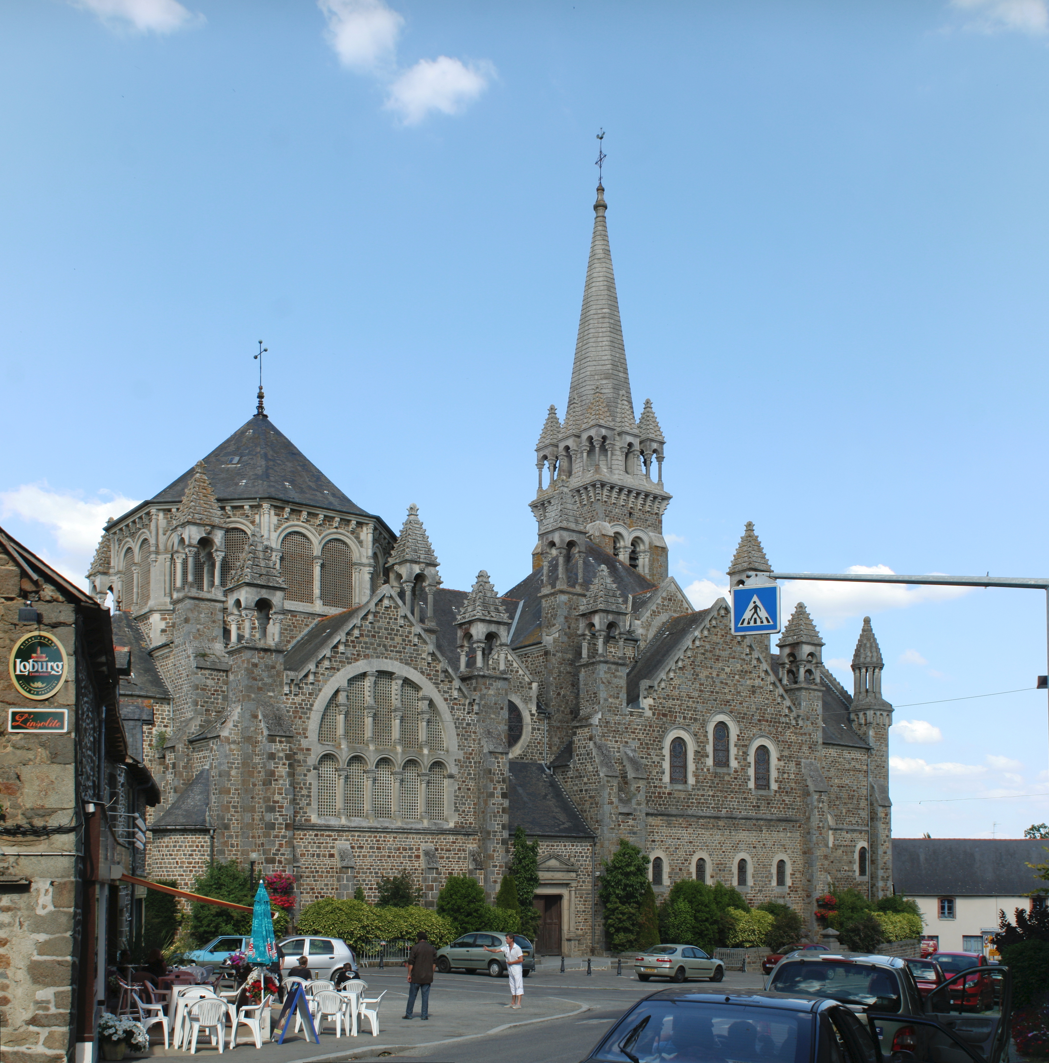 Trinity Church of Tinténiac, built in 1908 by Arthur Regnault (1839-1932). Tinténiac, Ille-et-Vilaine département, Brittany, France.